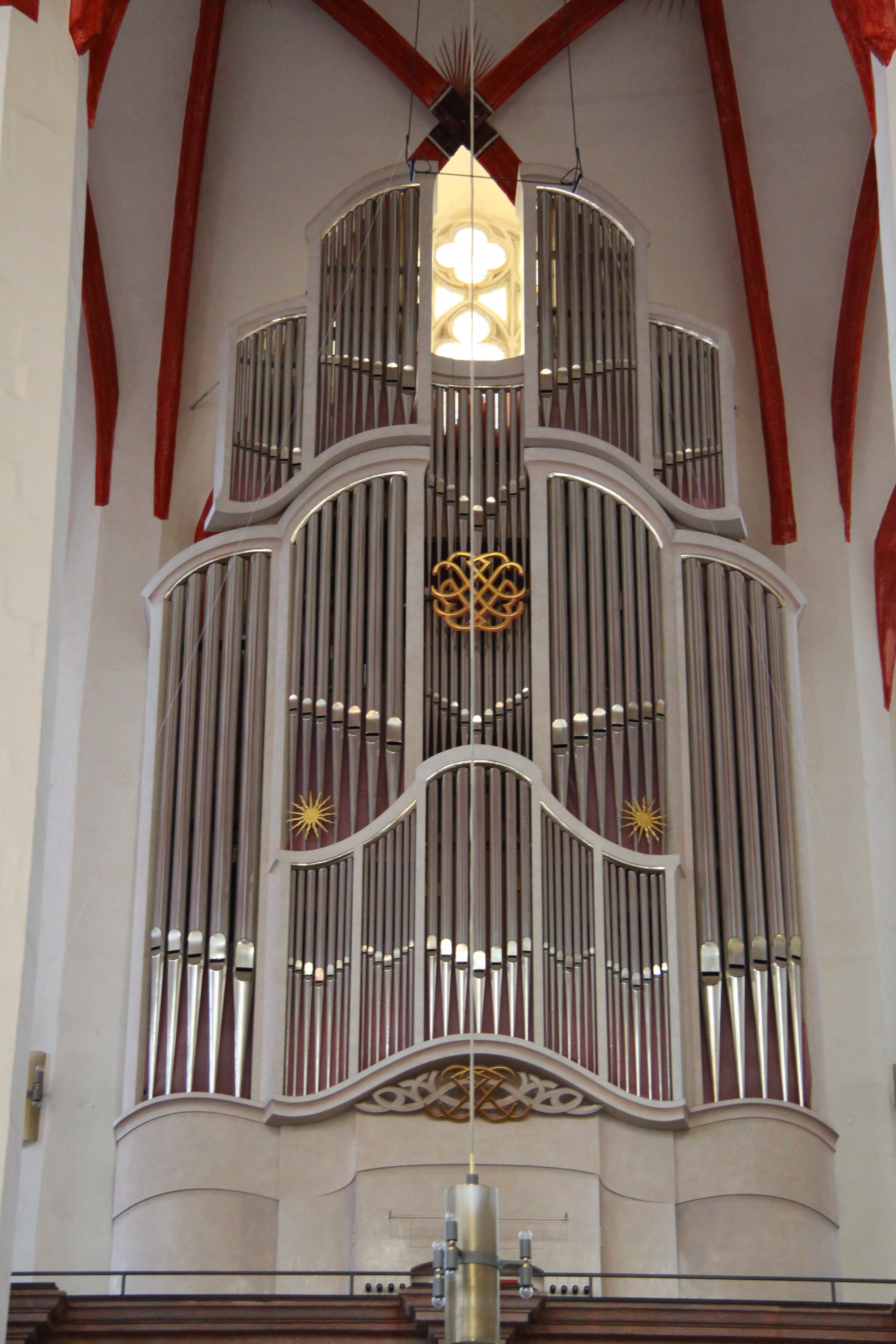 This image has been taken by Wikipedia-ce in late december of 2005 and is public domain. It shows the Woehl-organ of the church St. Thomas in Leipzig, Germany.